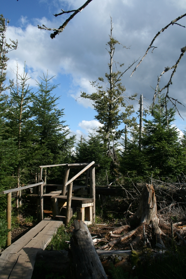 Lotharpfad